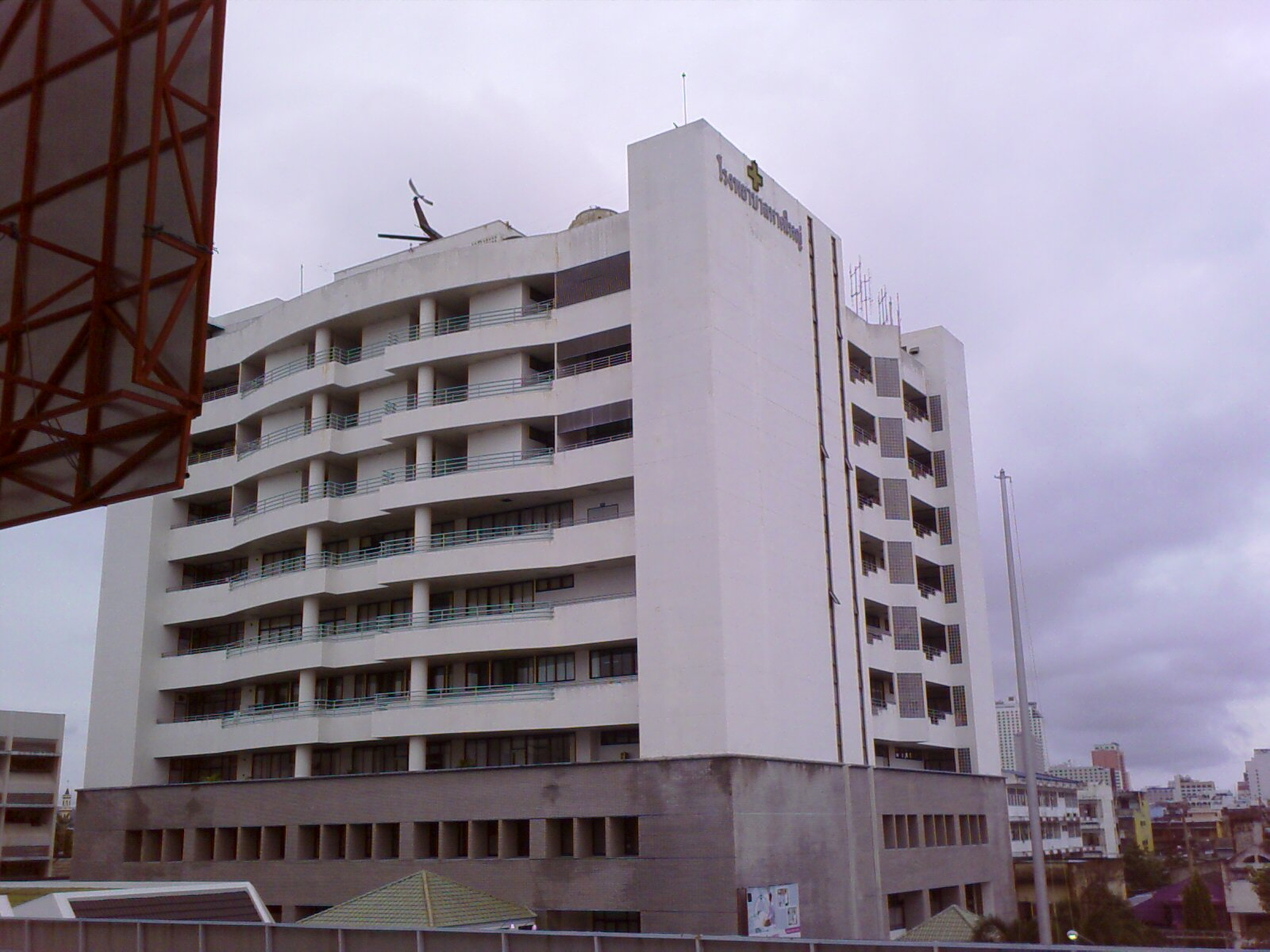 The A&E Building of Hat Yai Hospital, taken during the 2010 flood